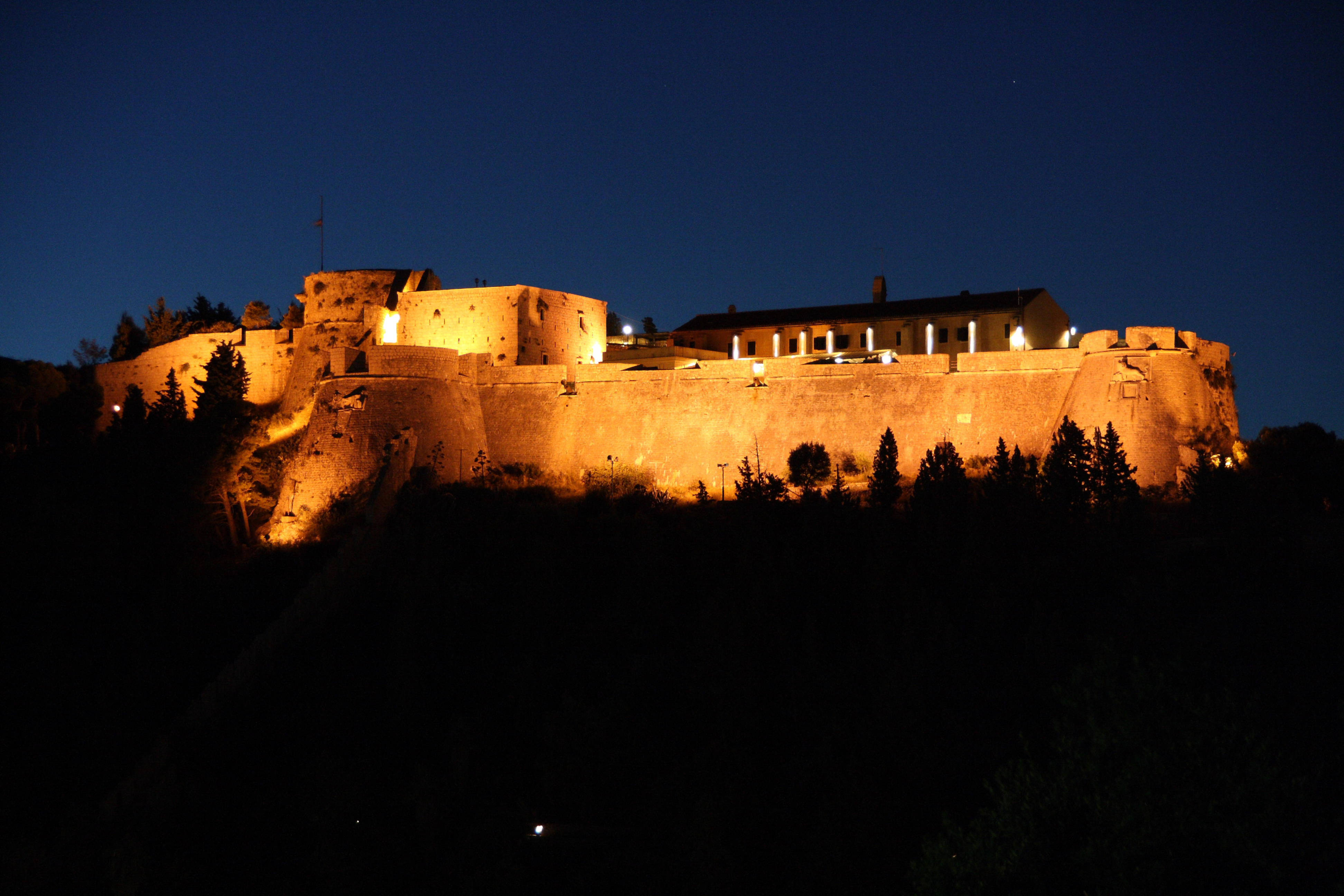 The fortress Spanjola above of the city of Hvar by night